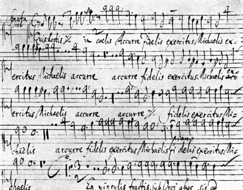 Autograph score of Quis hostis in coelis a 12 by Christian Geist, 1672. Location: Library of the University of Uppsala.